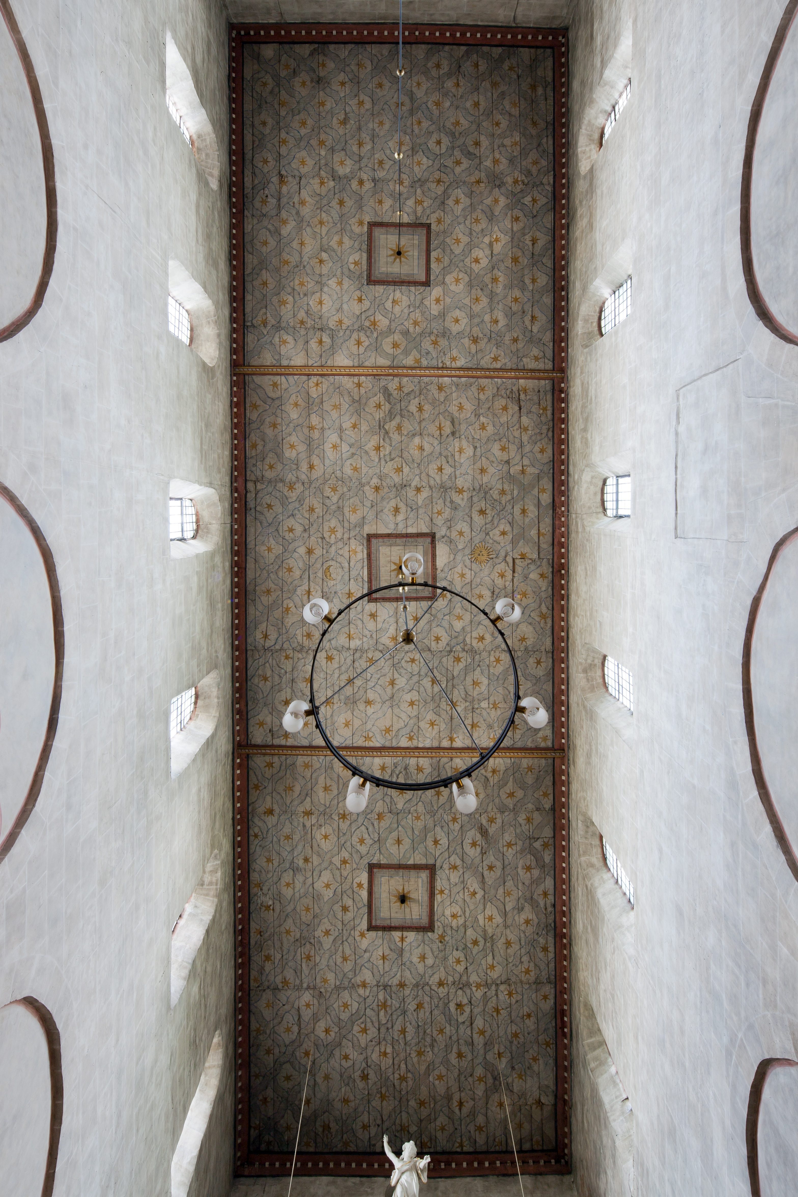 Limburg an der Lahn-Dietkirchen: St. Lubentius, wood ceiling of the central nave